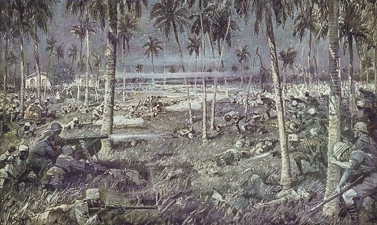 Germans on the left, British on the right